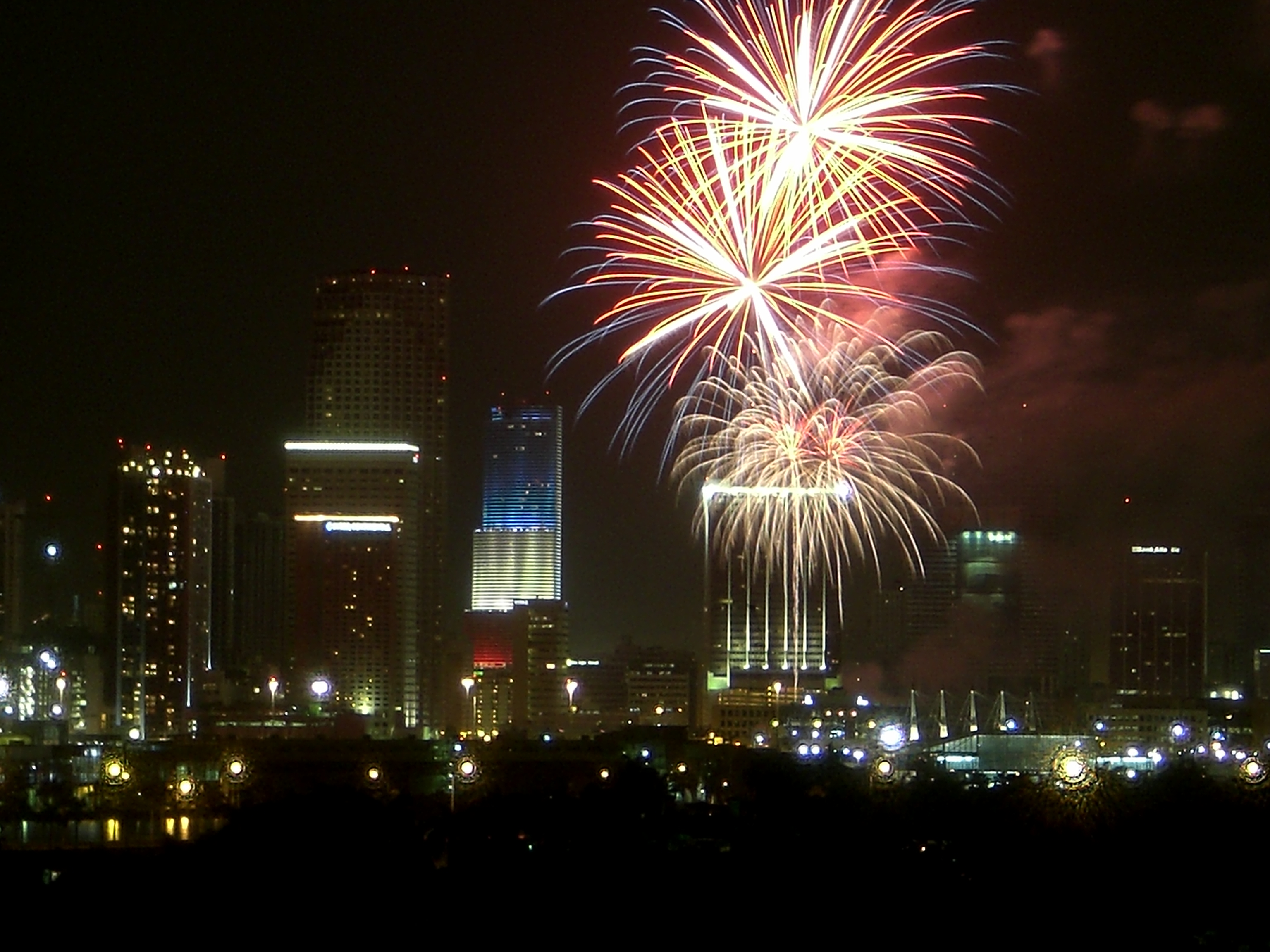 Downtown Miami on July 4, 2007